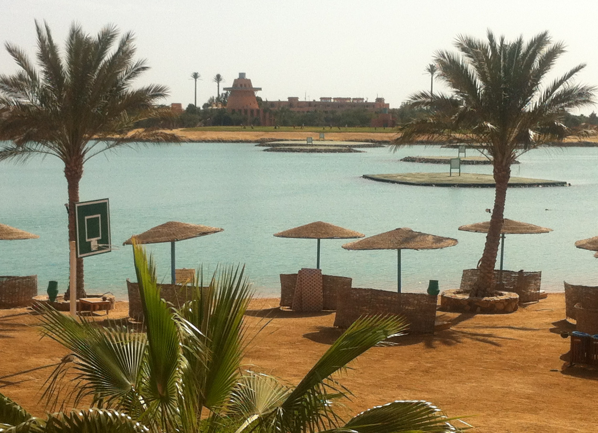 A liitle beacht at the Steigenberger Golf Resort in El Gouna near Hurghada, Egypt. The pontoons in the lagoon are distance marks of the drivingranch.